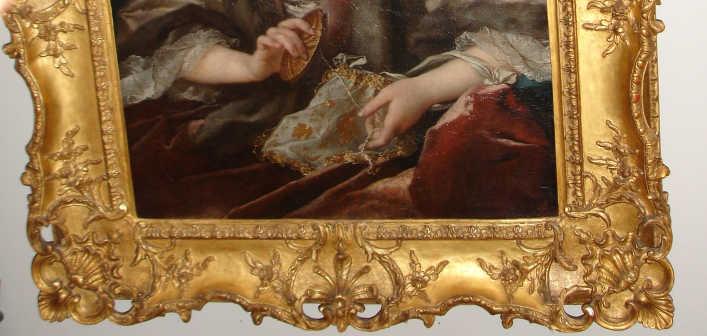 own work